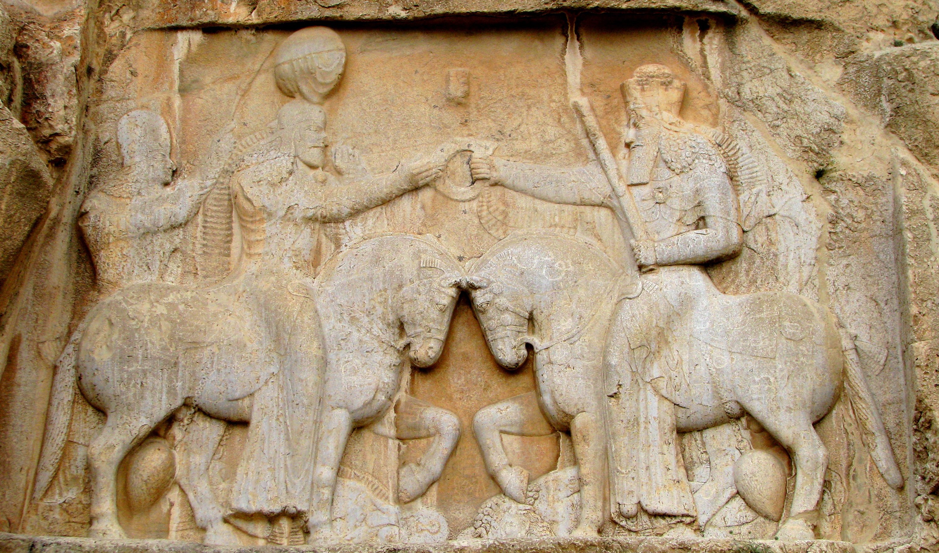 Ahura Mazda (right, with high crown) presents Ardashir I (left) with the ring of kingship. (Naqsh-e Rustam, 3rd c. CE) [2.40 . 6.45] m